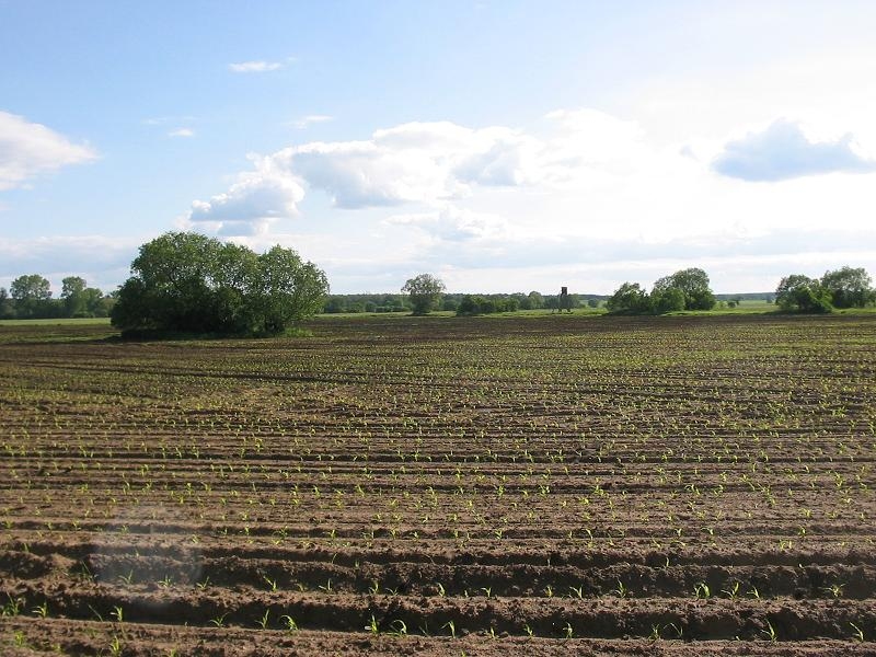 Field in the Belziger Landschaftswiesen in the North of Trebitz. The village Trebitz is an incorporated part of the town Brück in Brandenburg, Germany.